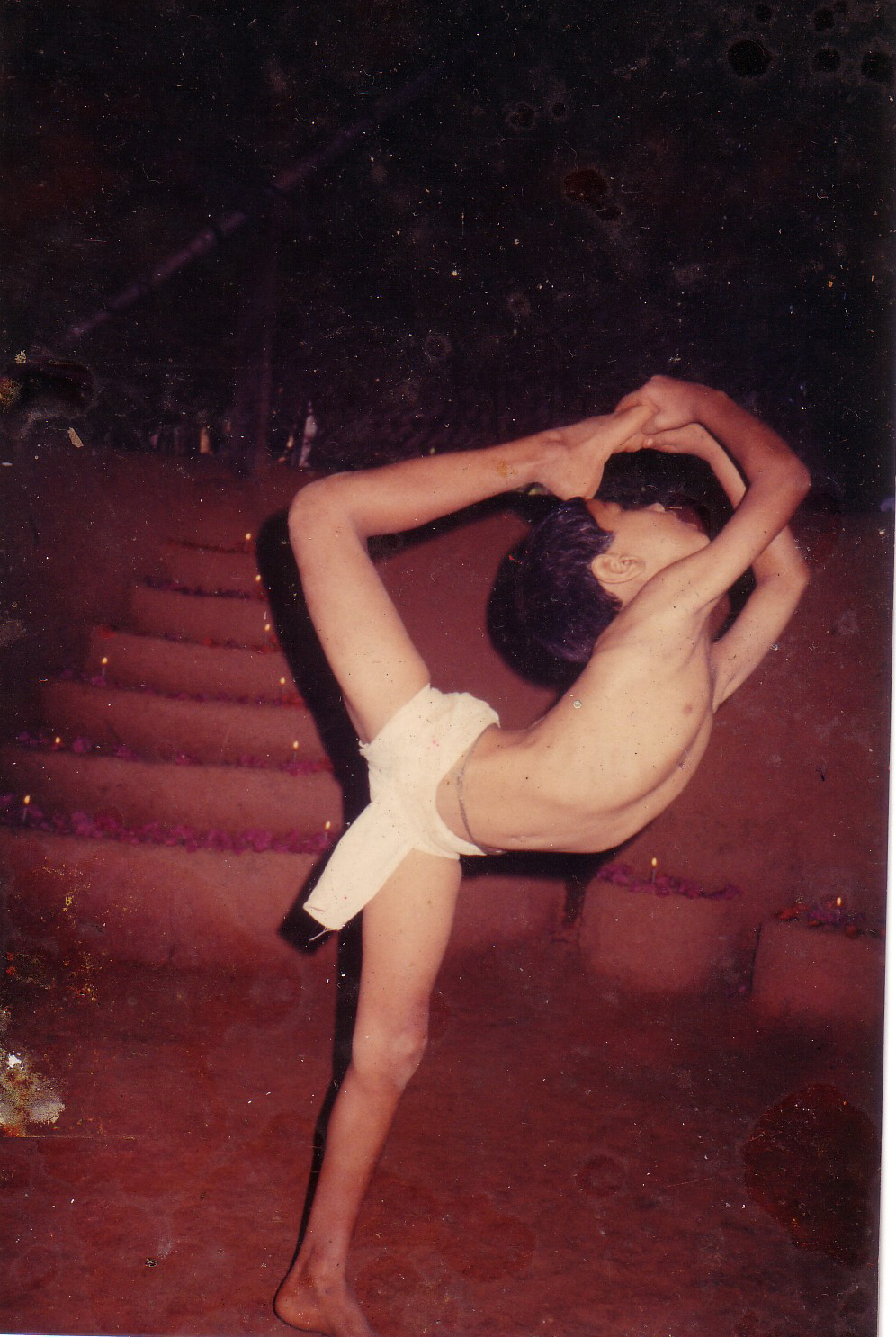 Kalari photo